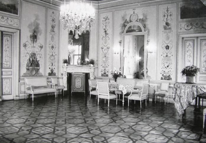 Ball Room of the Raczyński Palace (also known as the Czapski Palace) in Warsaw.[1] Burned down on September 25, 1939 as a result of severe aerial bombardment by the Germans (incendiary bombing).[1]